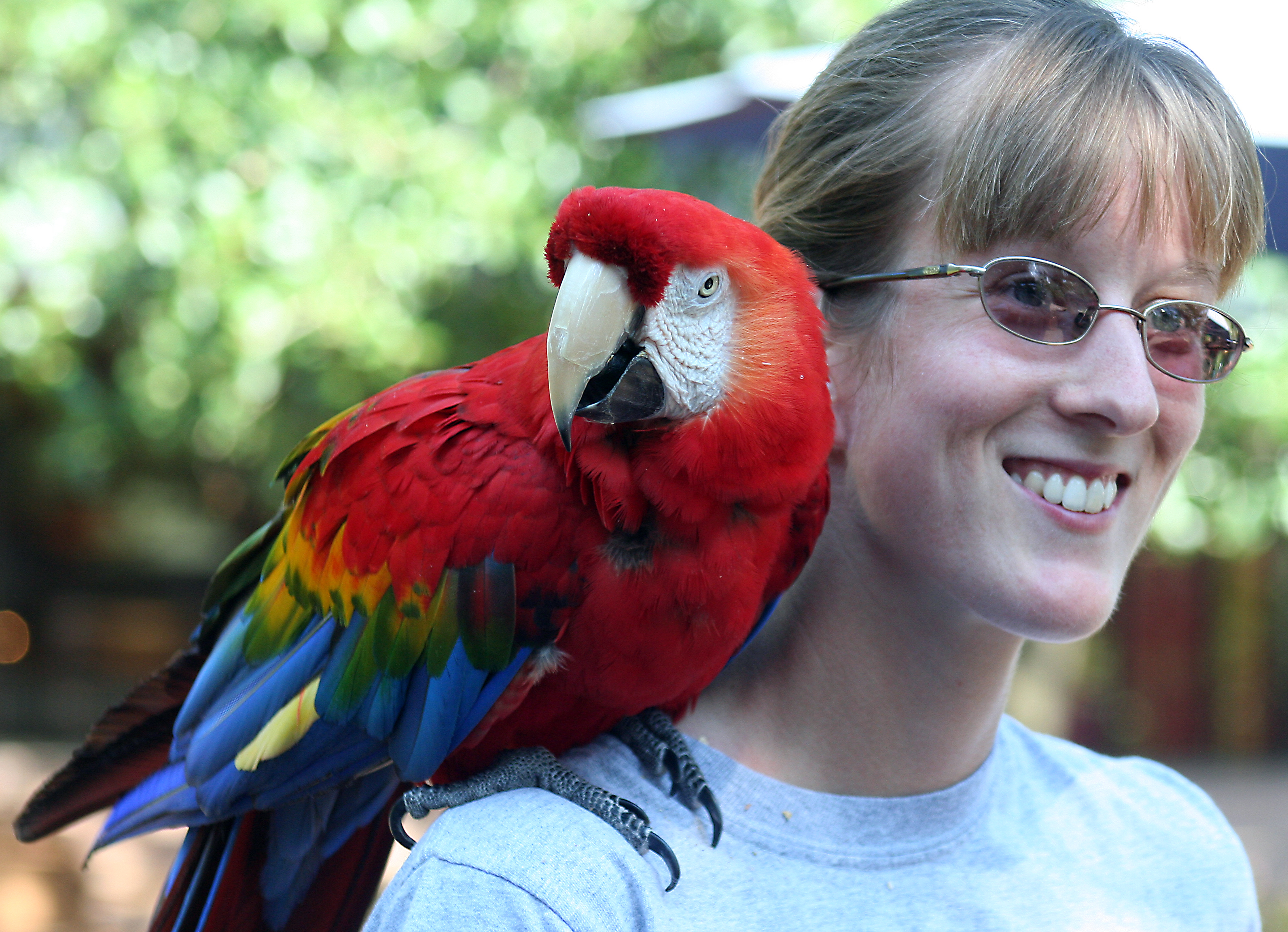 Scarlet Macaw (Ara macao) standing on a woman's shoulder at Houston Zoo, USA.